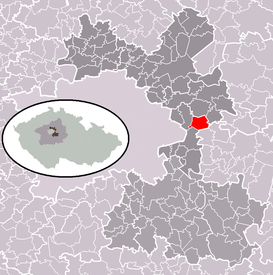 Location of Horoušany municipality within Prague-East District and administrative area of Brandýs nad Labem-Stará Boleslav as a Municipality with Extended Competence.